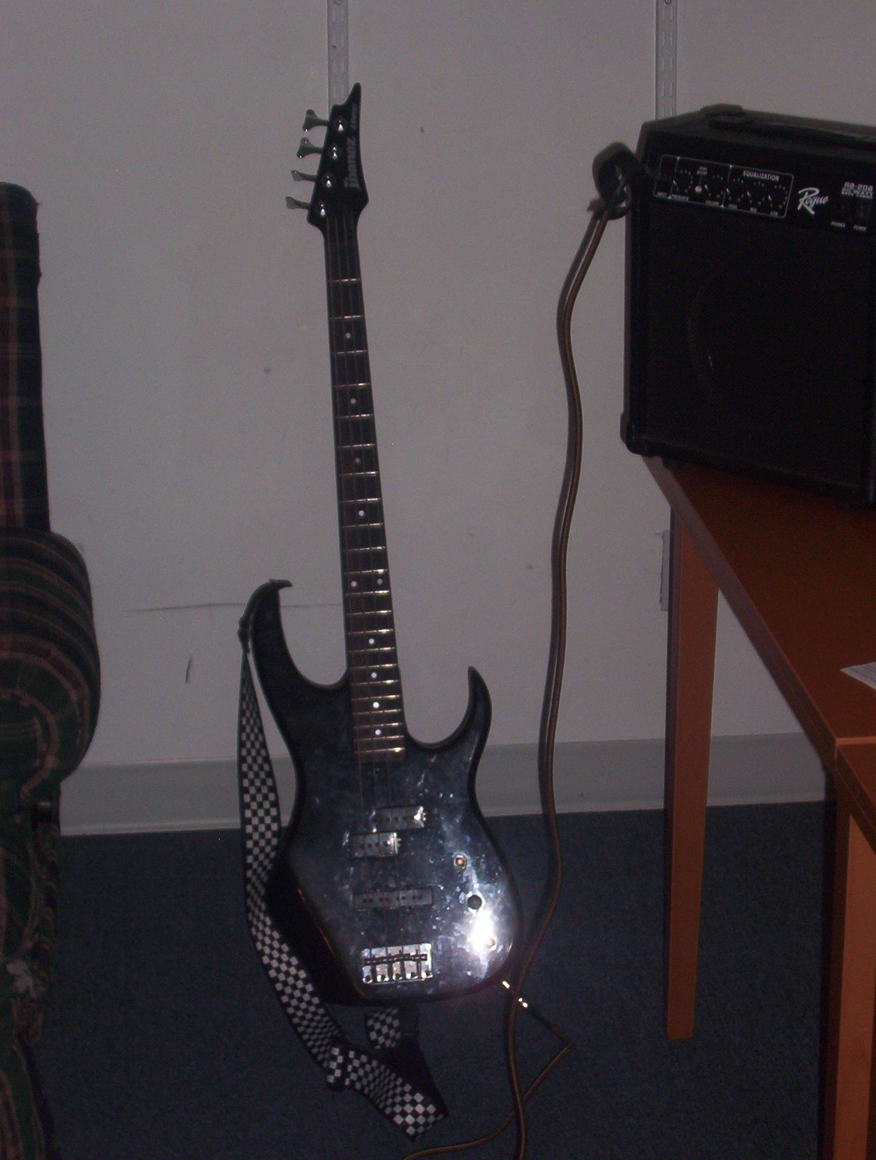 I call her Diane